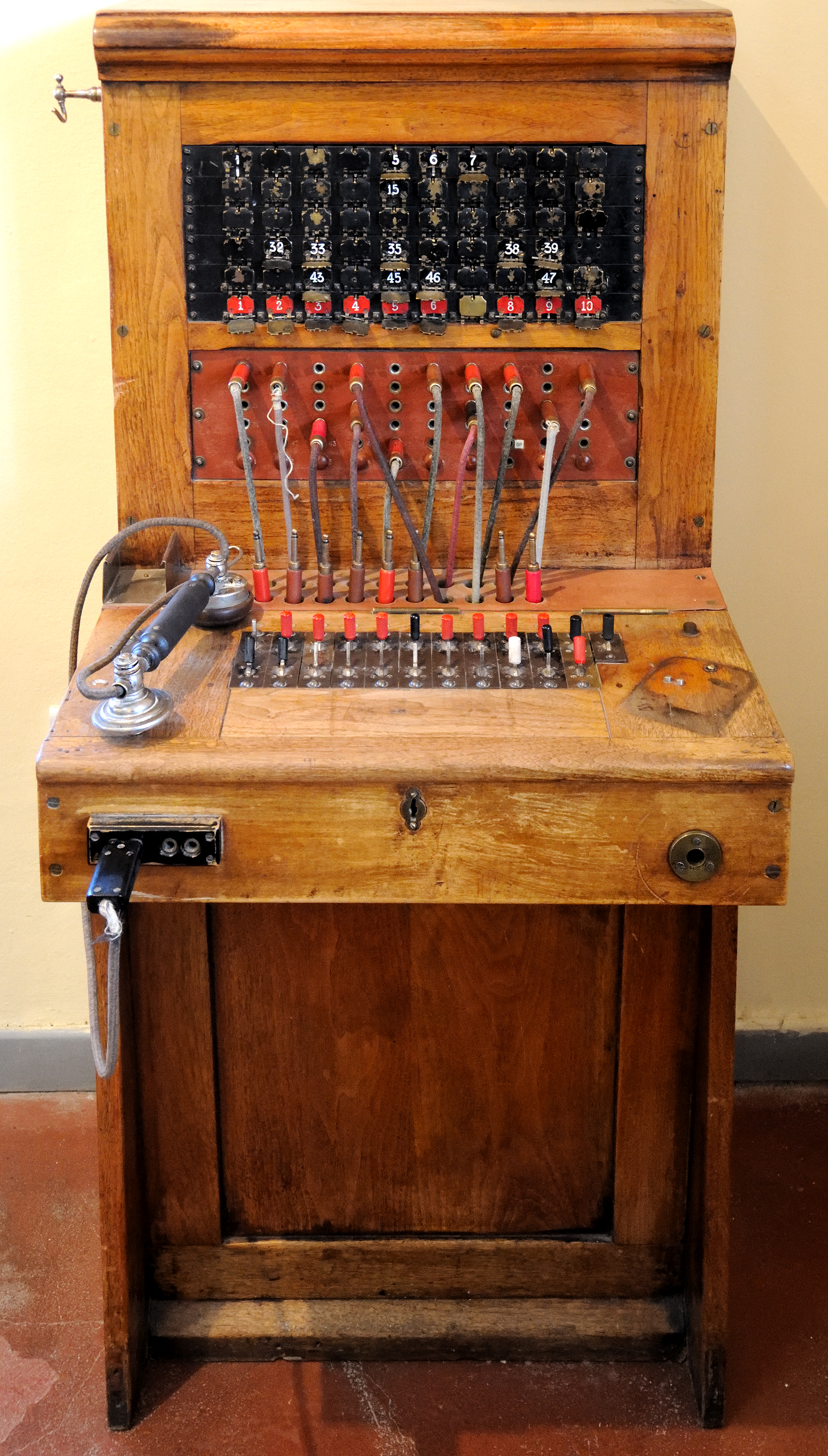 Old telephone center at the Museum of Trelew, Argentina